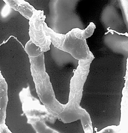 A network of capillaries supply brain cells with nutrients. Tight seals in their walls keep blood toxins—and many beneficial drugs—out of the brain. From: Bridging the Blood-Brain Barrier: New Methods Improve the Odds of Getting Drugs to the Brain Cells That Need Them Ferber D PLoS Biology Vol. 5, No. 6, e169